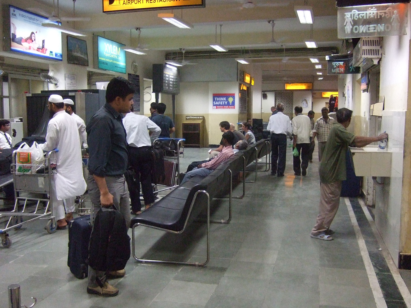 Varanasi Airport check-in area.